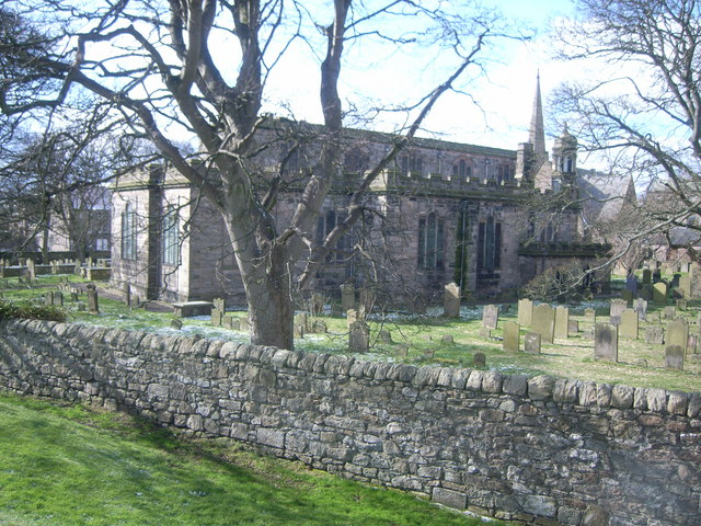 Holy Trinity parish church, Berwick-upon-Tweed, Northumberland, seen from the northeast from the town wall. The spire of the Church of Scotland church of St Andrew is in the background on the right.